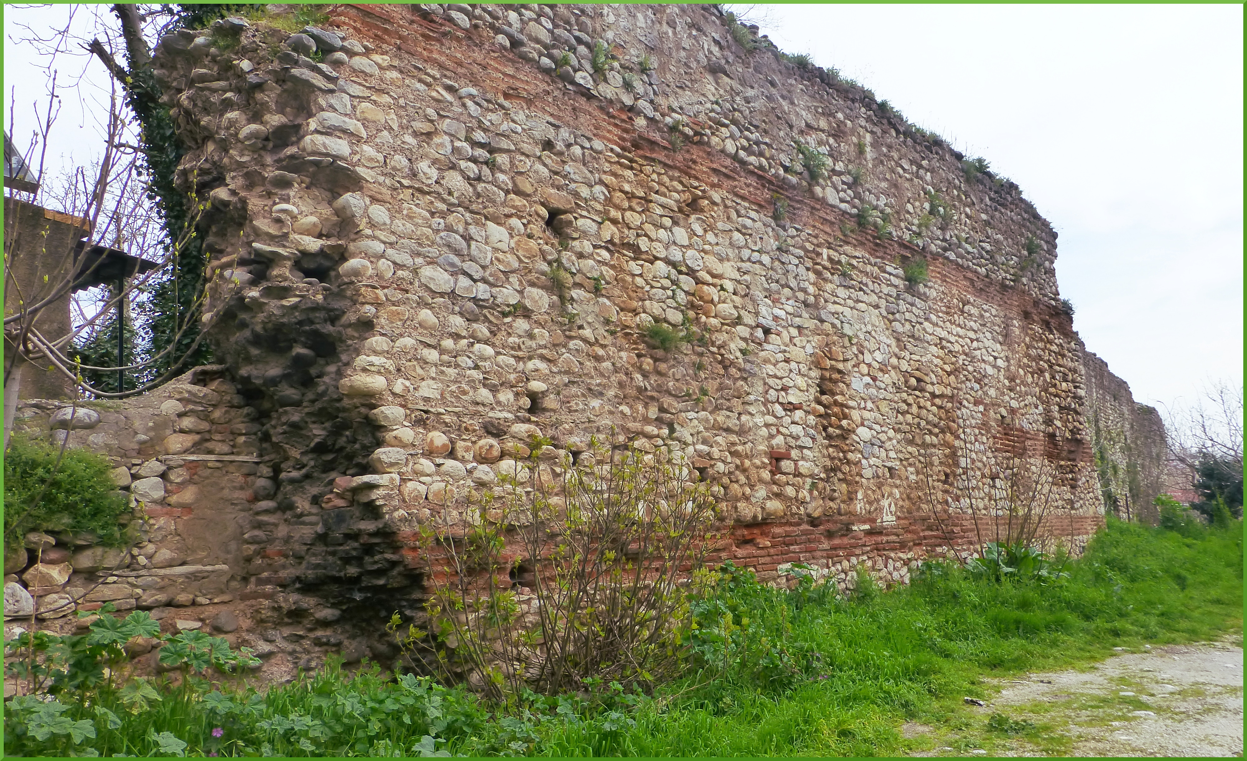 City Wall Dramam Greece